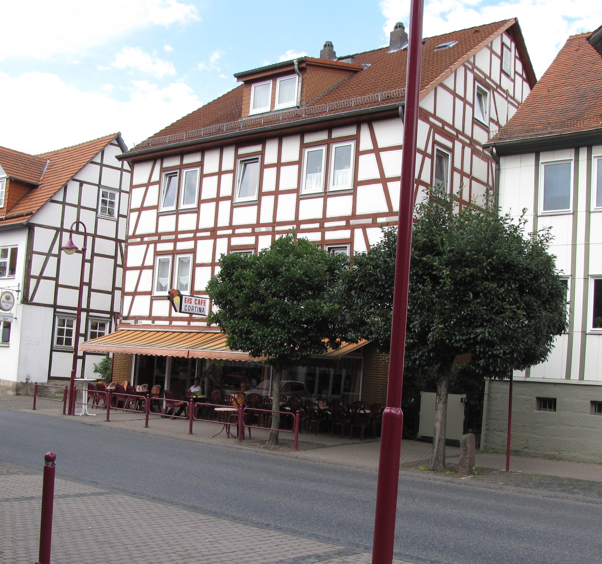 Picture of Eis Cafe Cortina, located on the main street in Oberkaufungen. Located only a few blocks from the Rathaus.